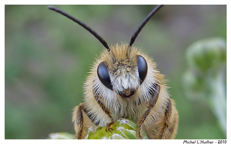 Dasypoda hirtipes (male)